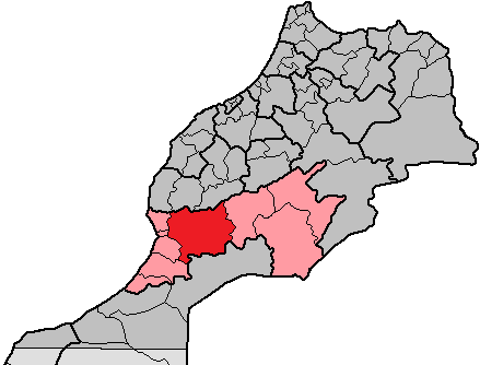 Location of the province Taroudant within the region Souss-Massa-Drâa, Morocco. In total, Morocco has 16 regions, subdivided into 62 provinces and 13 prefectures.